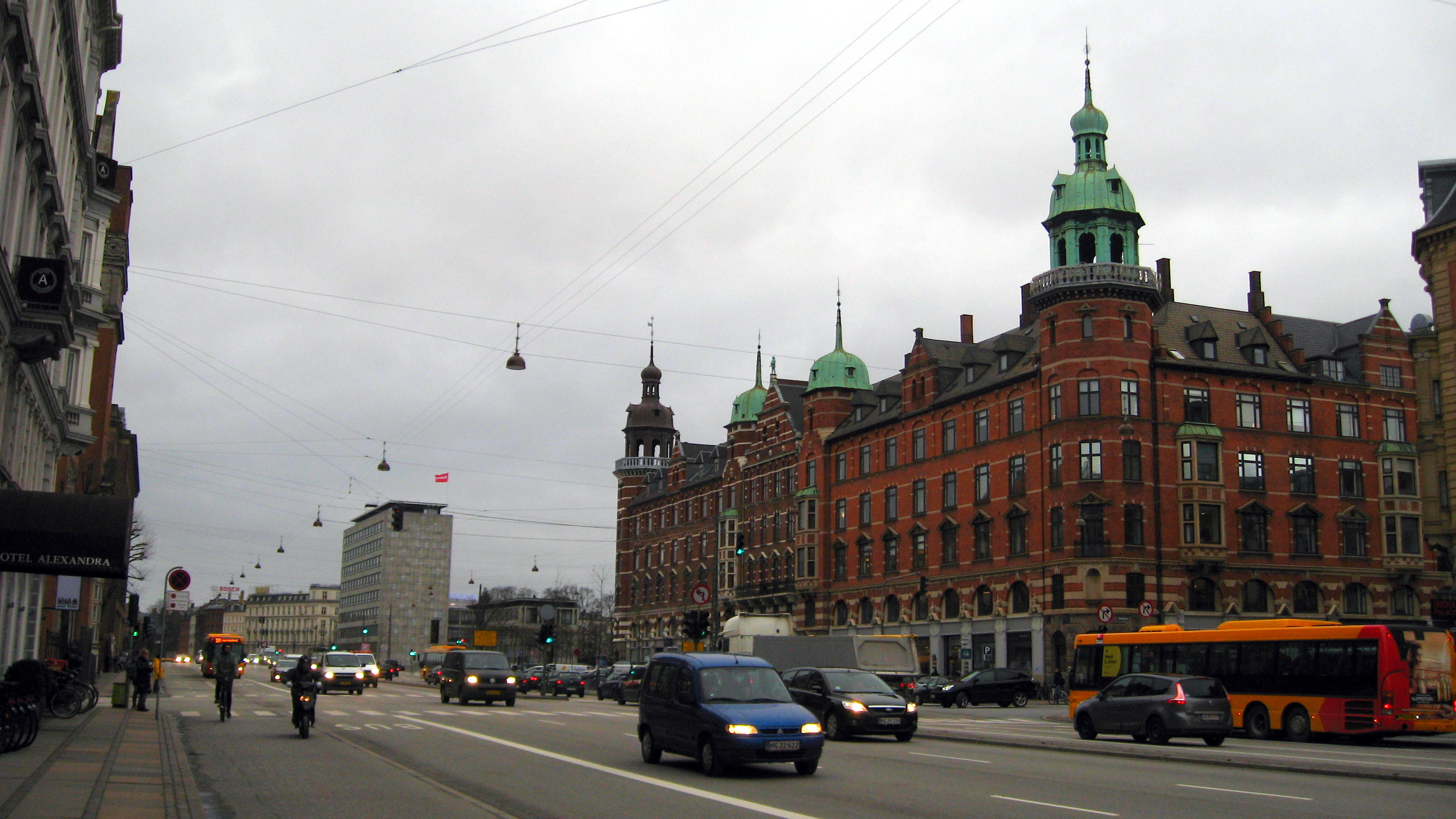 Copenhagen